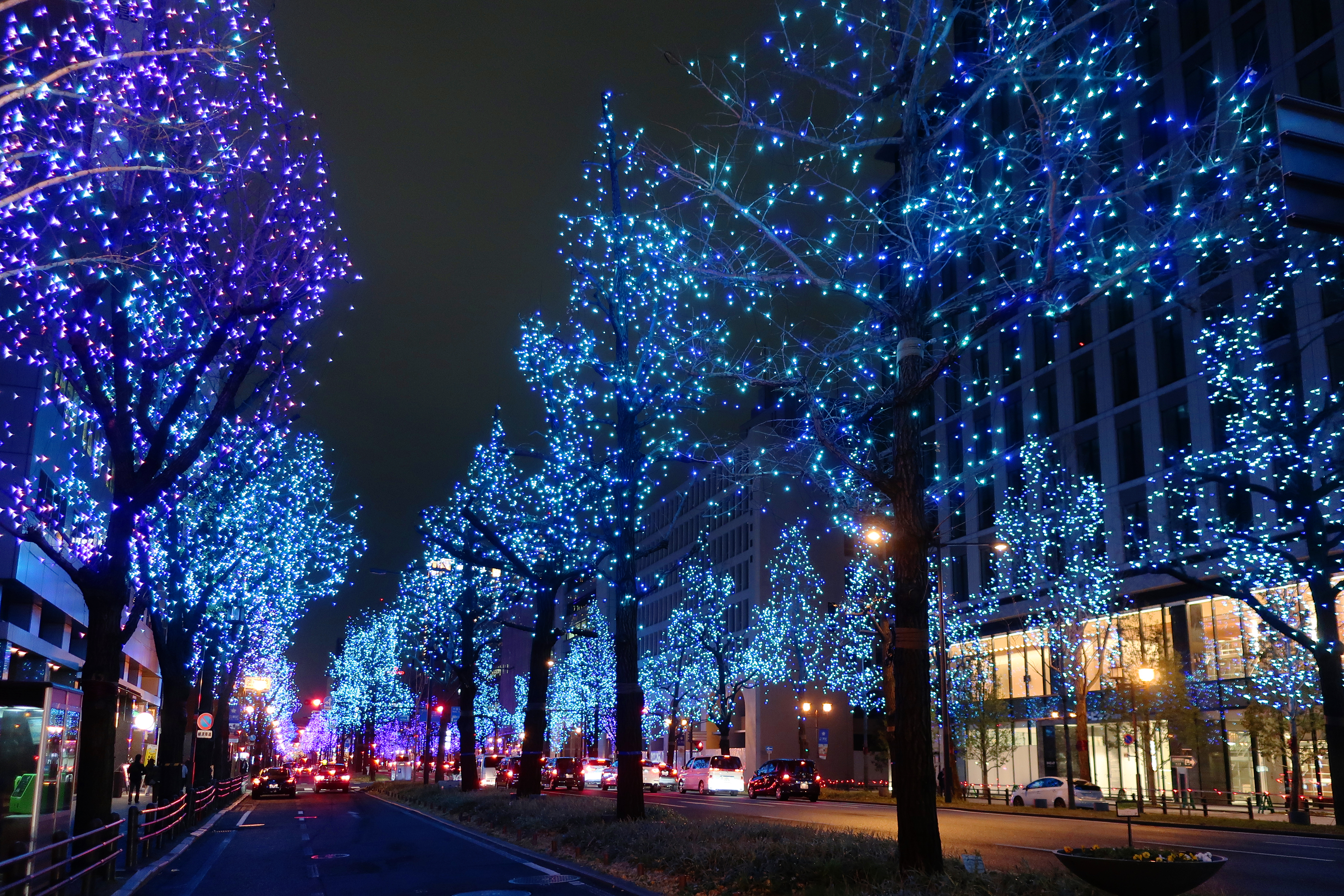 The Midosuji illumination (御堂筋イルミネーション) at Osaka City, Japan. Canon PowerShot G9 X Mark II